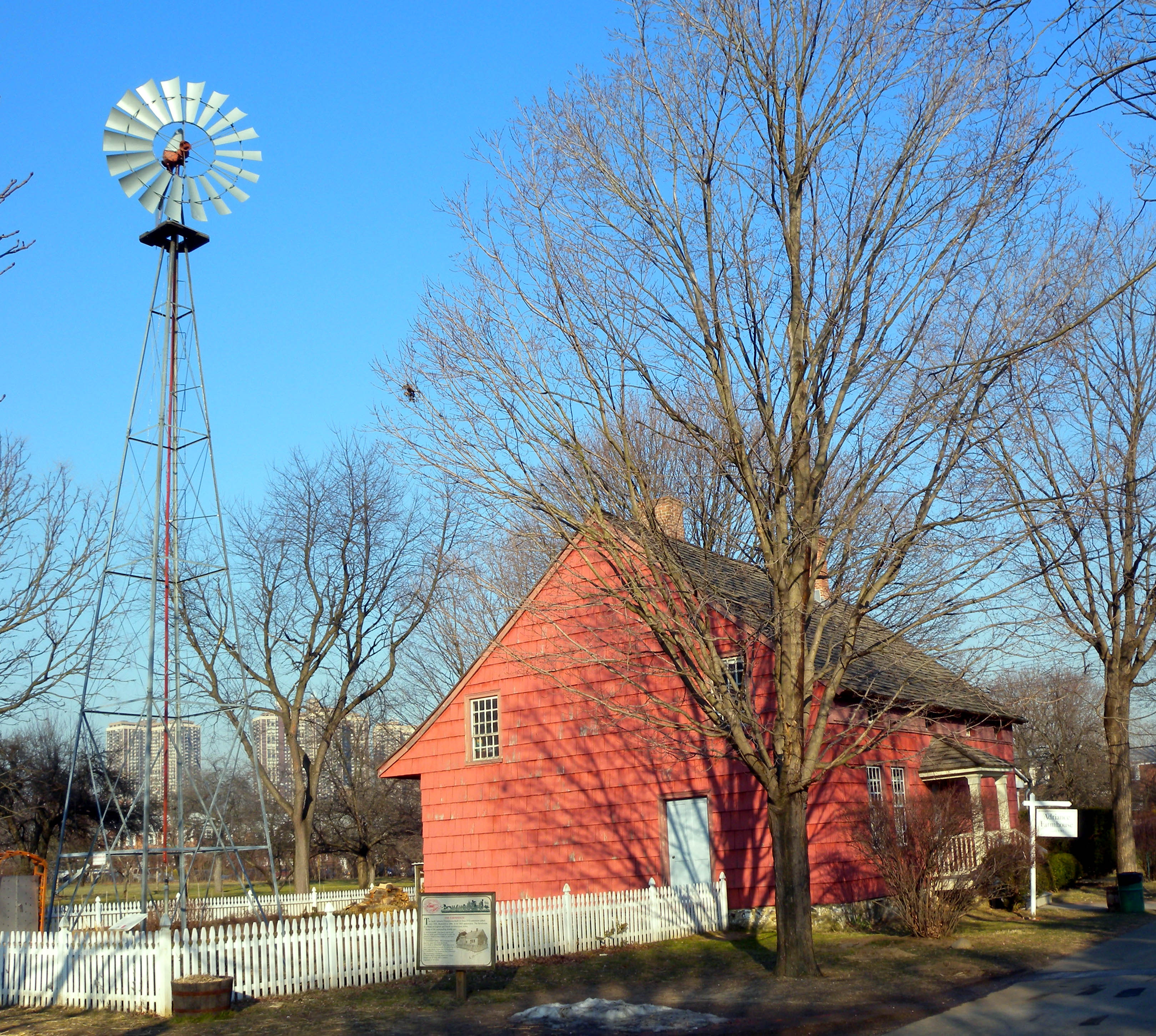 Looking northeast at Jacob Adriance Farmhouse, built 1772, of QCFM on a sunny late afternoon. NYCLPC designation 1976.